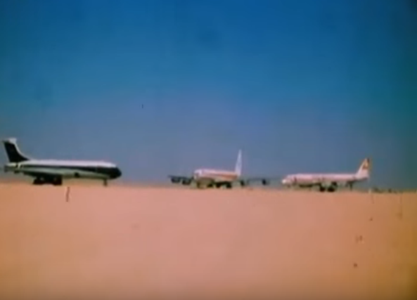 Dawson field aircraft moments before they were blown up, Jordan, 6 September 1970